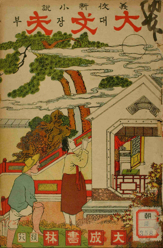 Early modern Hangul novel in Korea